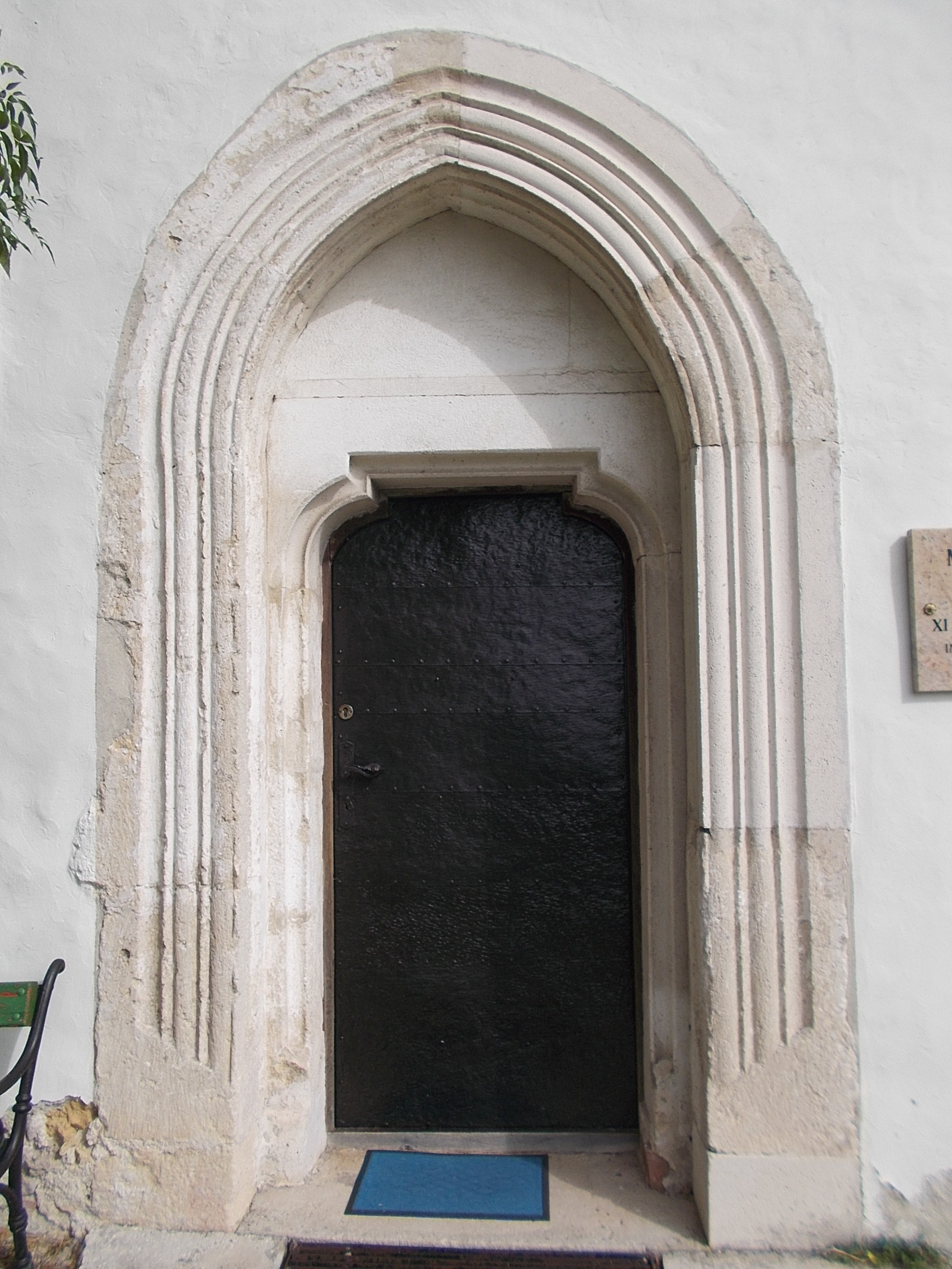 Saint Stephen of Hungary church. - Inota quarter, Várpalota, Veszprém County, Hungary.